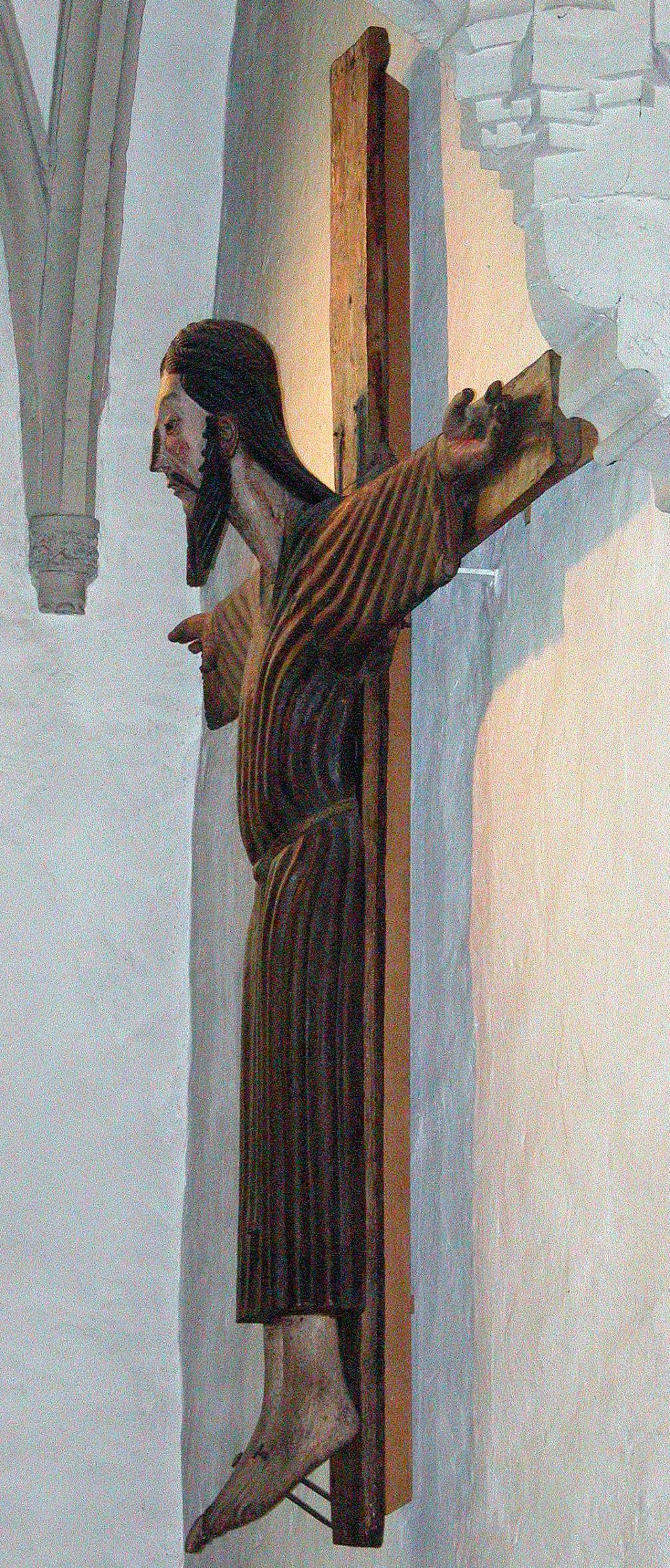 Brunswick cathedral, Imerward's Cross